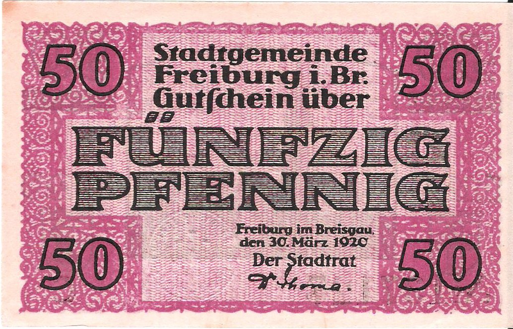 local emergency money, Freiburg 1920